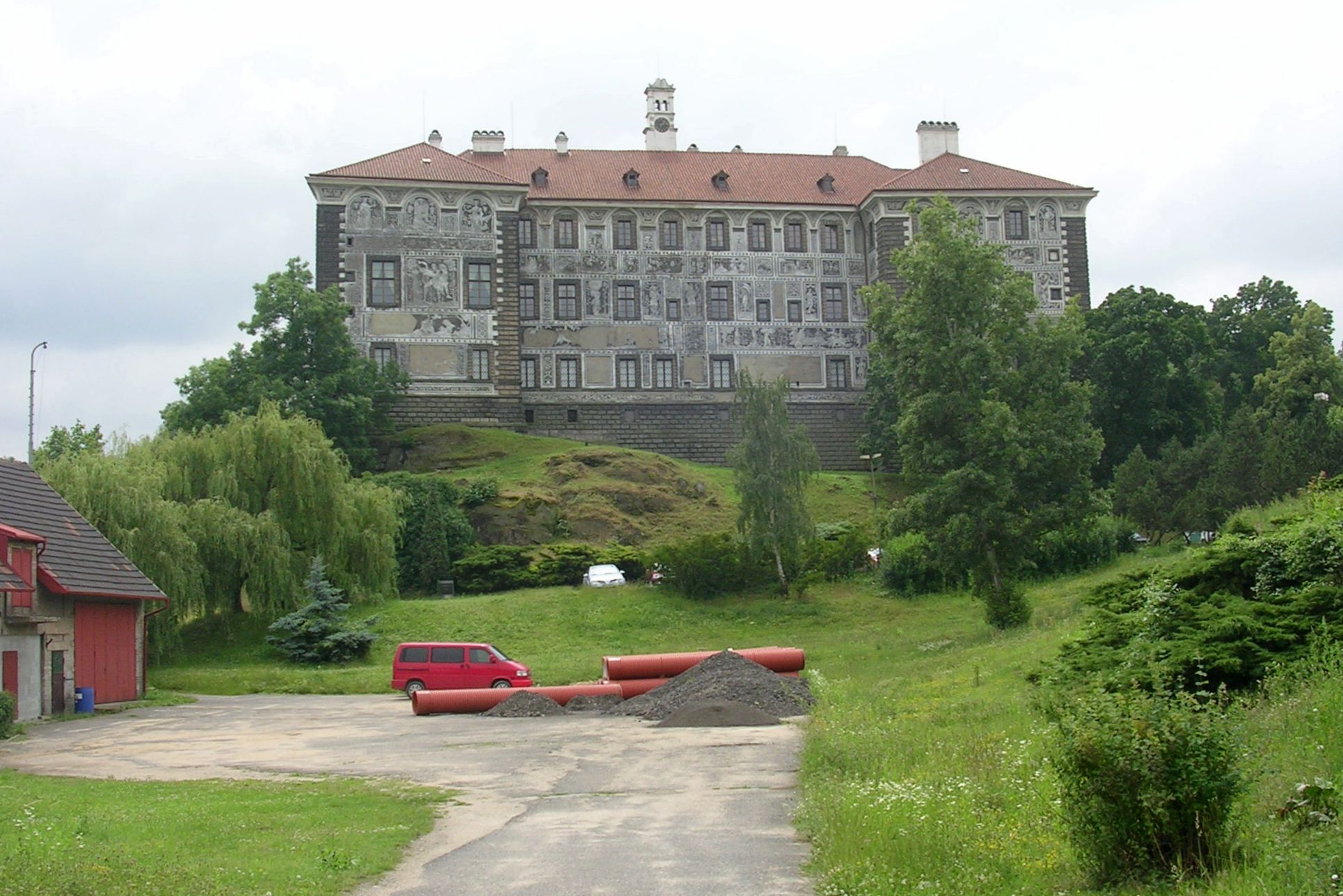 Nelahozeves, Mělník District, Central Bohemian Region, the Czech Republic. Nelahozeves Castle. - Google Maps - Google Earth